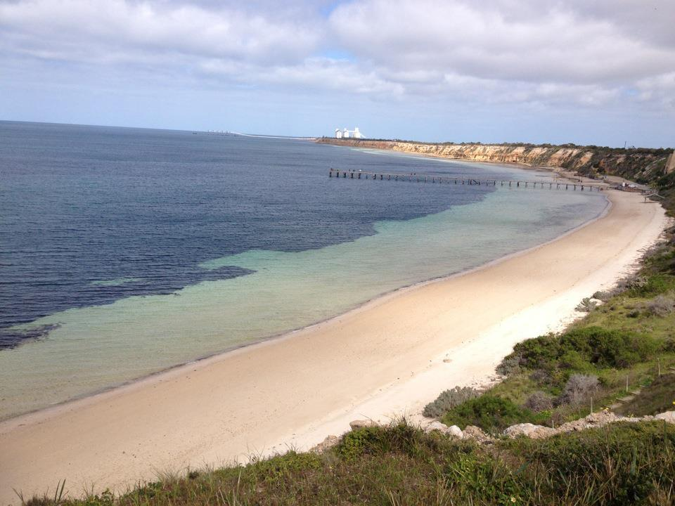 The main bay and jetty of Wool Bay as photographed from the cliff top. Photo copyright Adele Eliseo